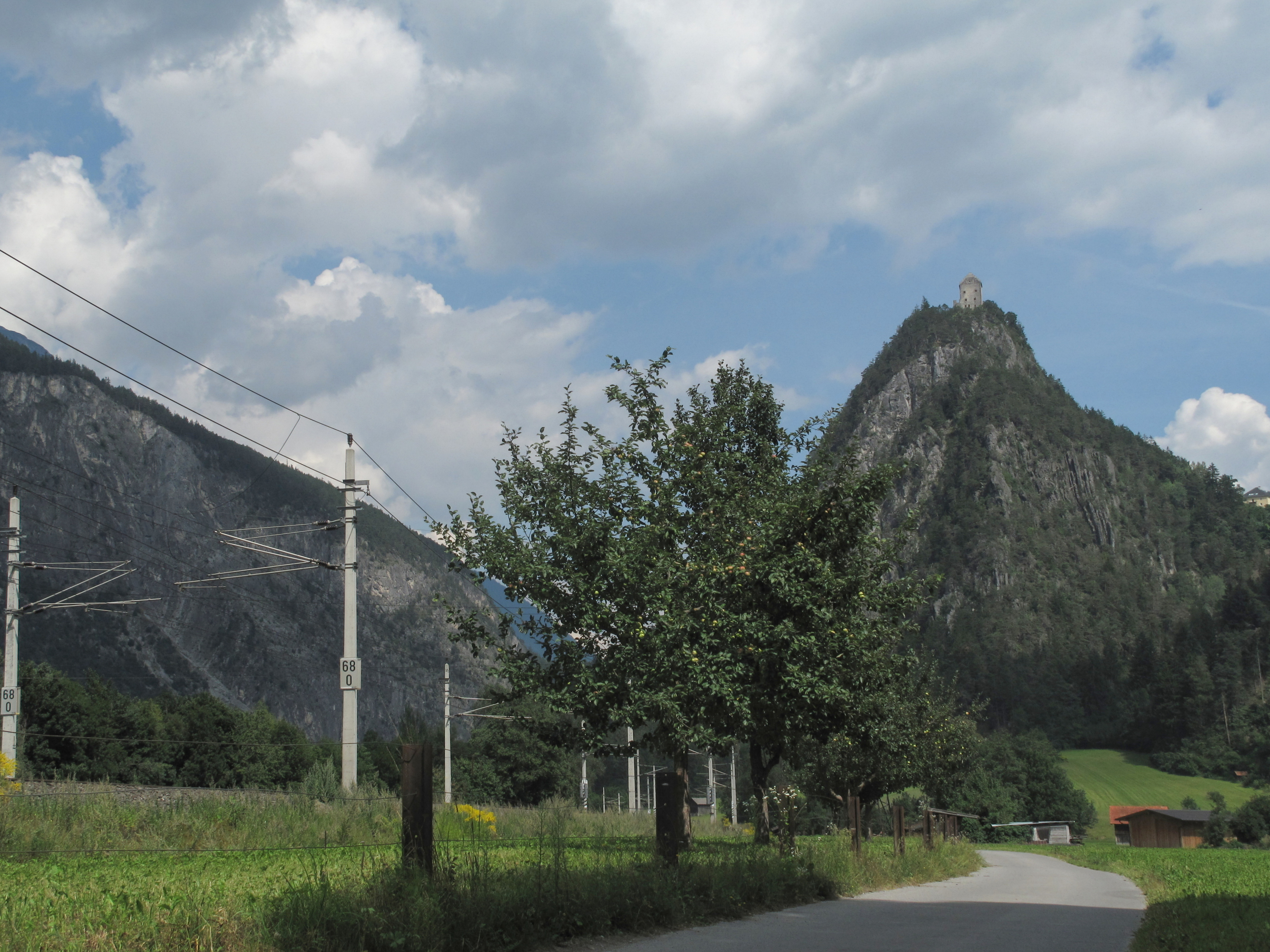 Zams, castle: die Kronburg